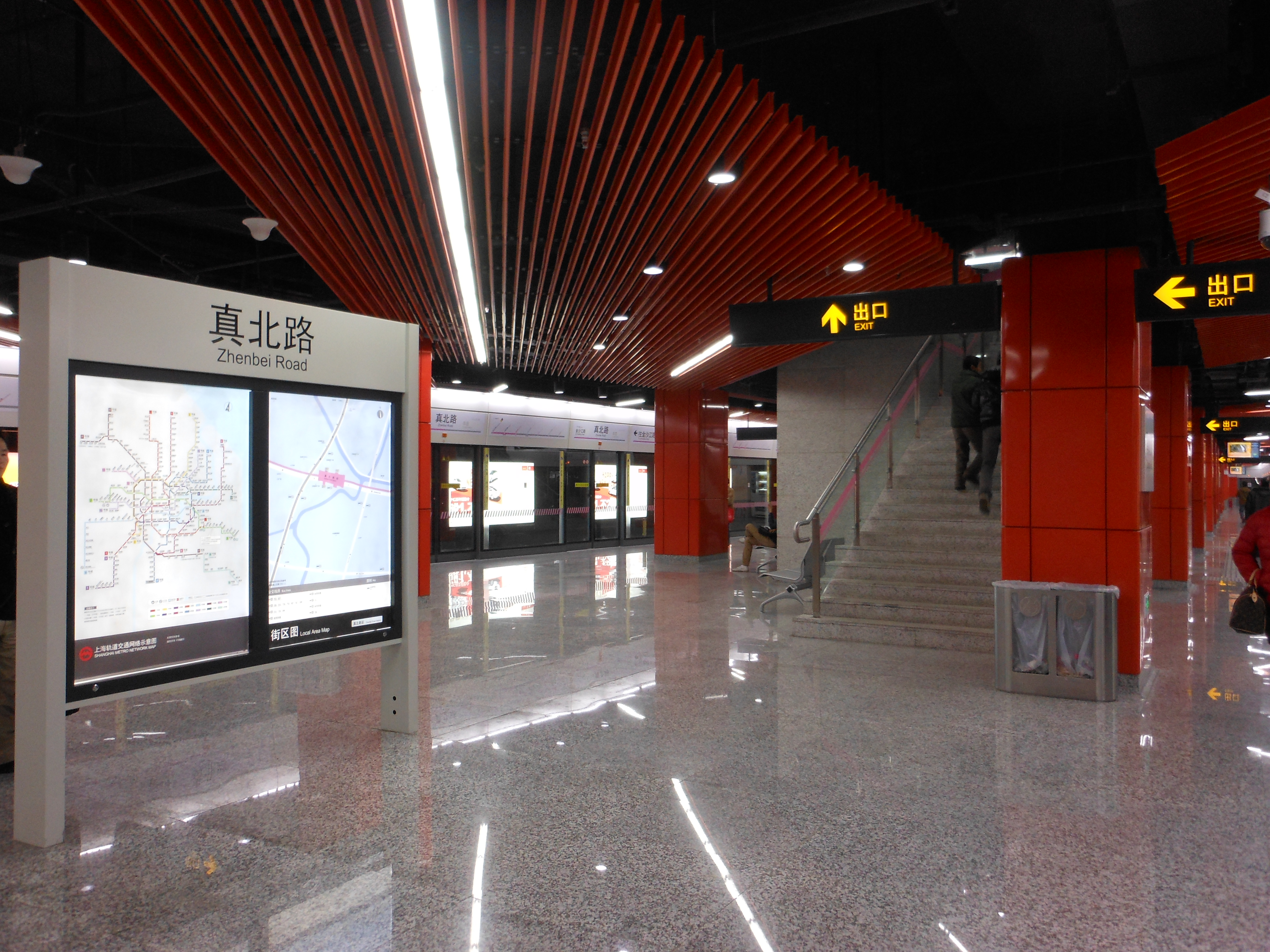 Line 13 Platform of Zhenbei Road